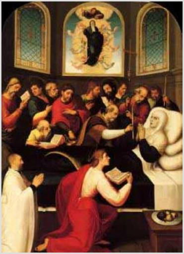 foto